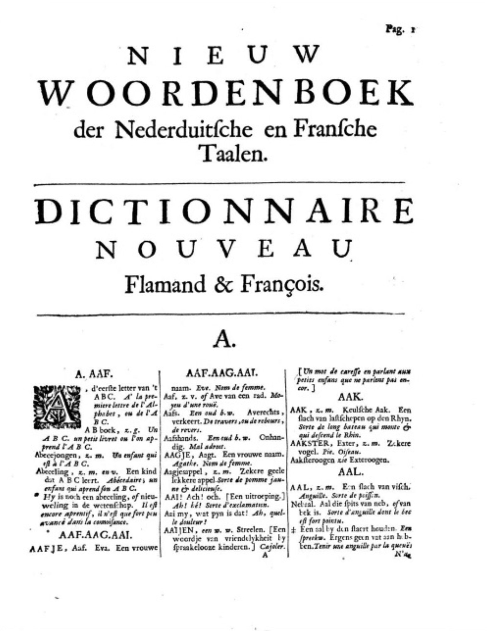 Dicitionary Dutch - French, by François Halma